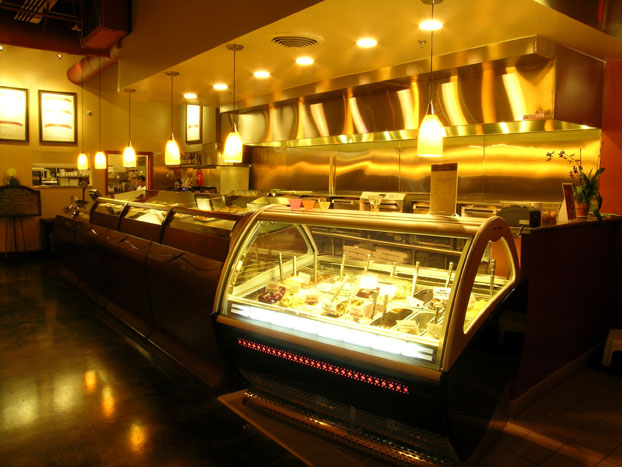 PV Mountain View case